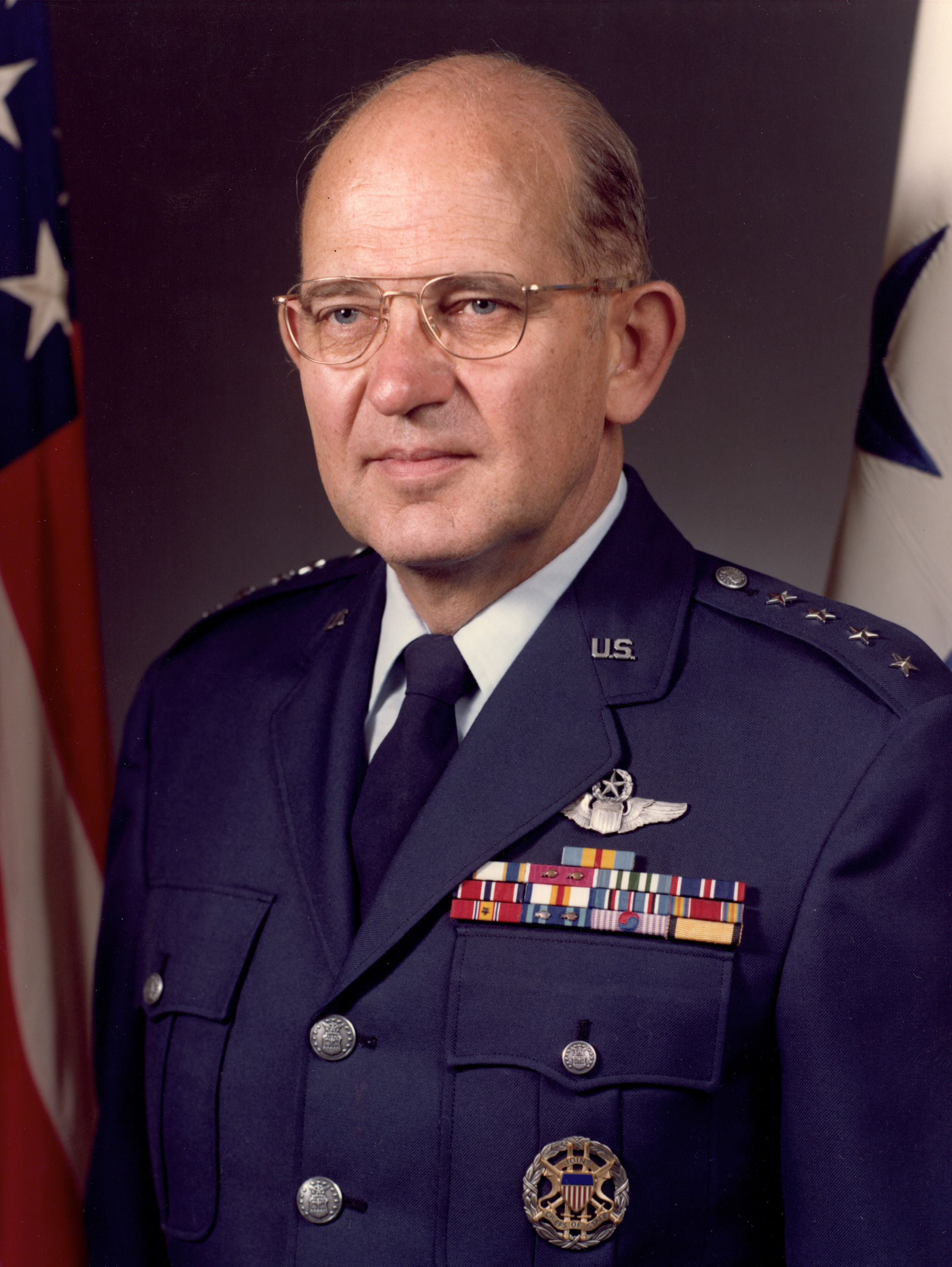 General Lew Allen, director of the NSA from 1973 to 1977 and Chief of Staff of the US Air Force.